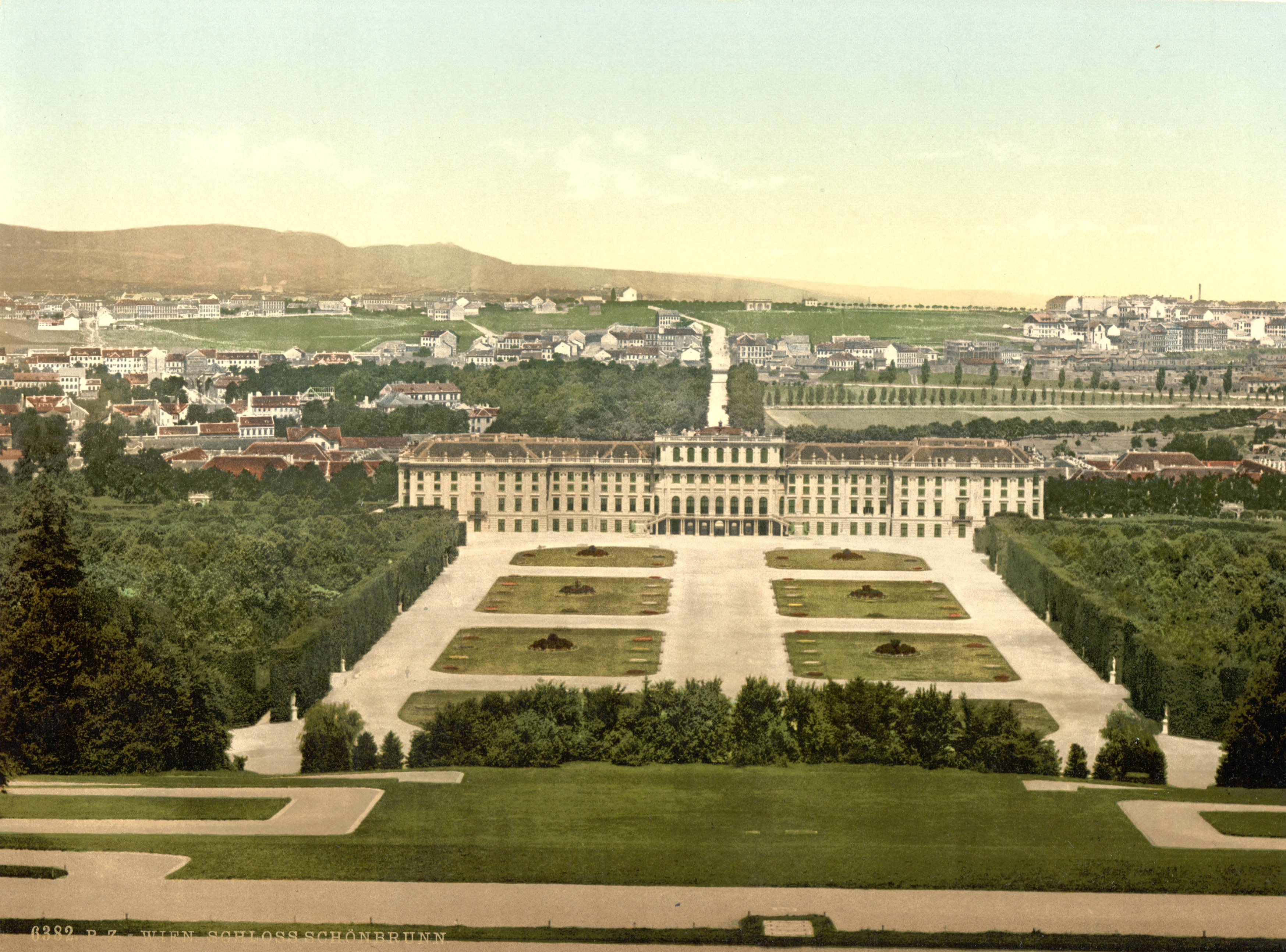 Print no. "6382".; Forms part of: Views of the Austro-Hungarian Empire in the Photochrom print collection.; Title from the Detroit Publishing Co., Catalogue J-foreign section, Detroit, Mich. : Detroit Publishing Company, 1905.